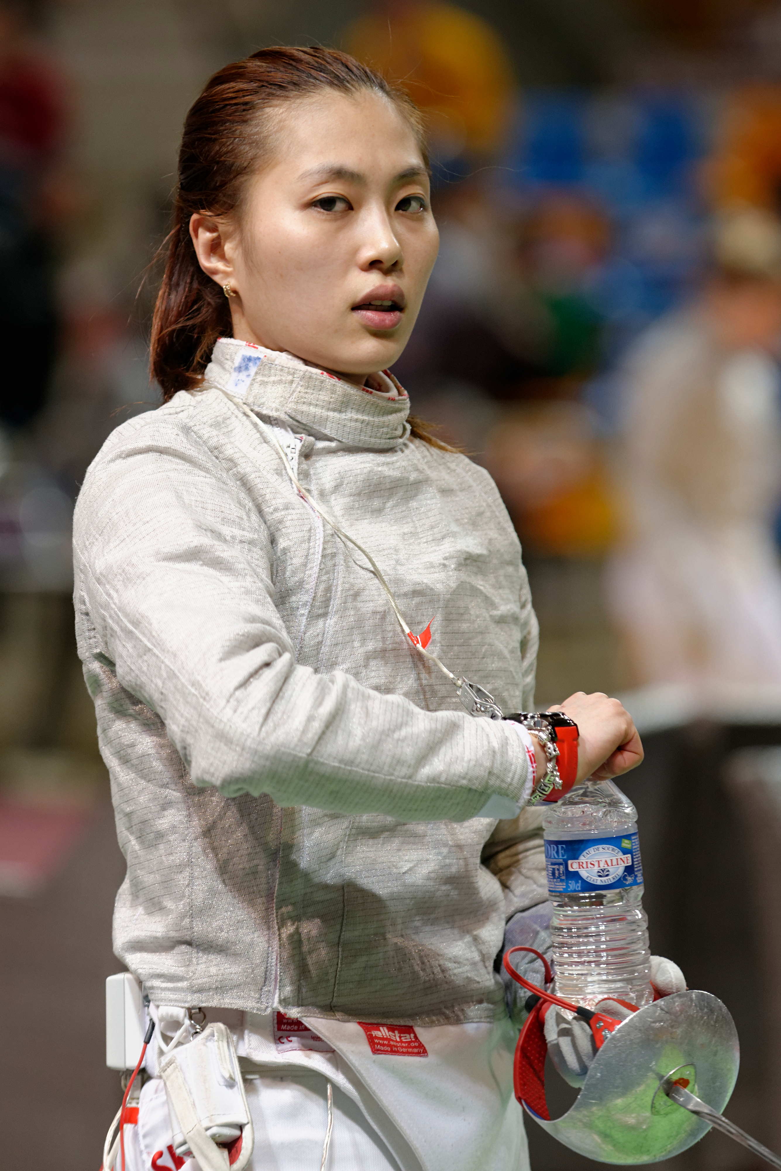 Korea's Kim Ji-Yeon at the Trophée BNP Paribas-Grand Prix FIE, first stage of the women's sabre World Cup, in Orléans.